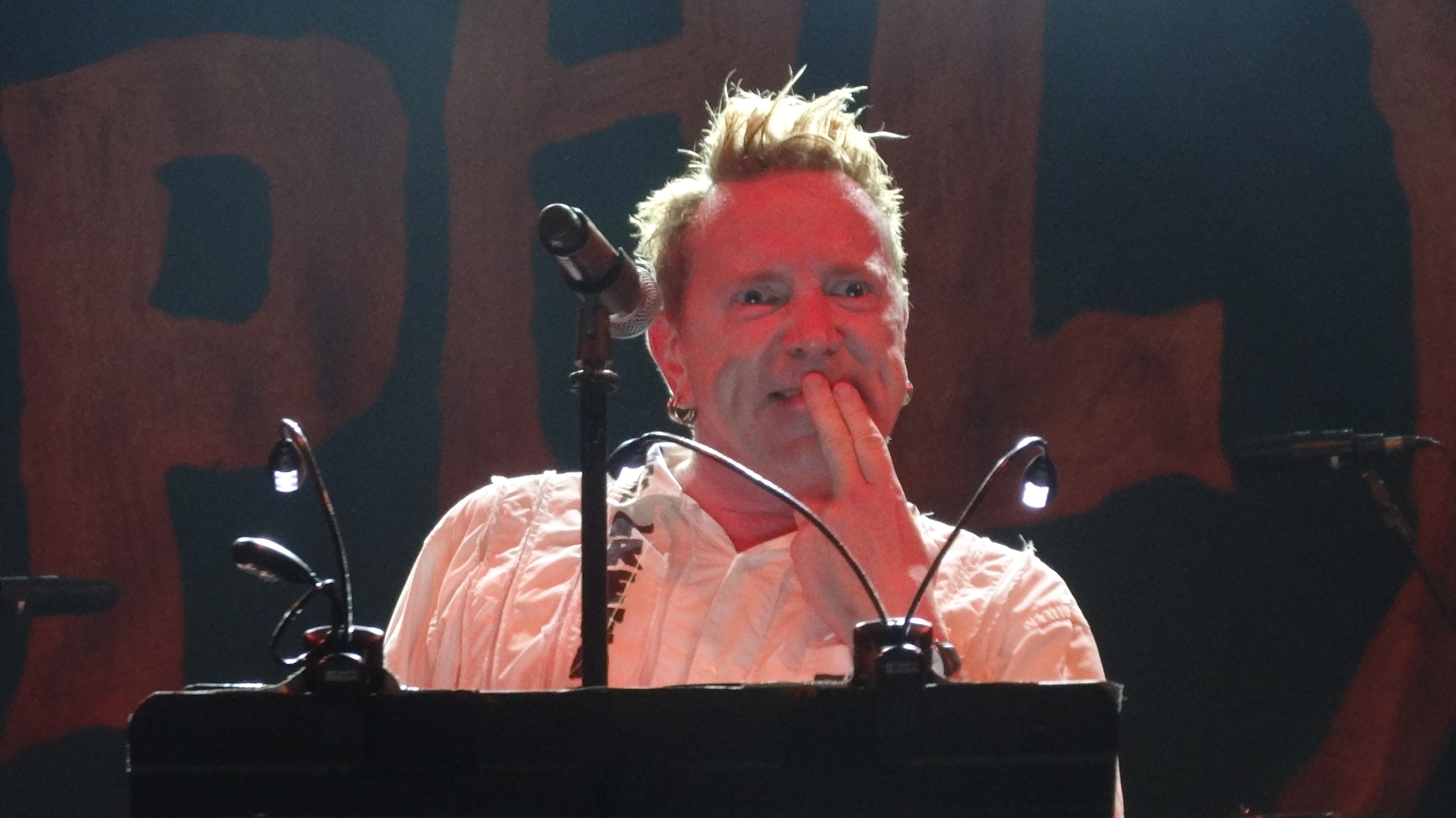 Public Image Limited